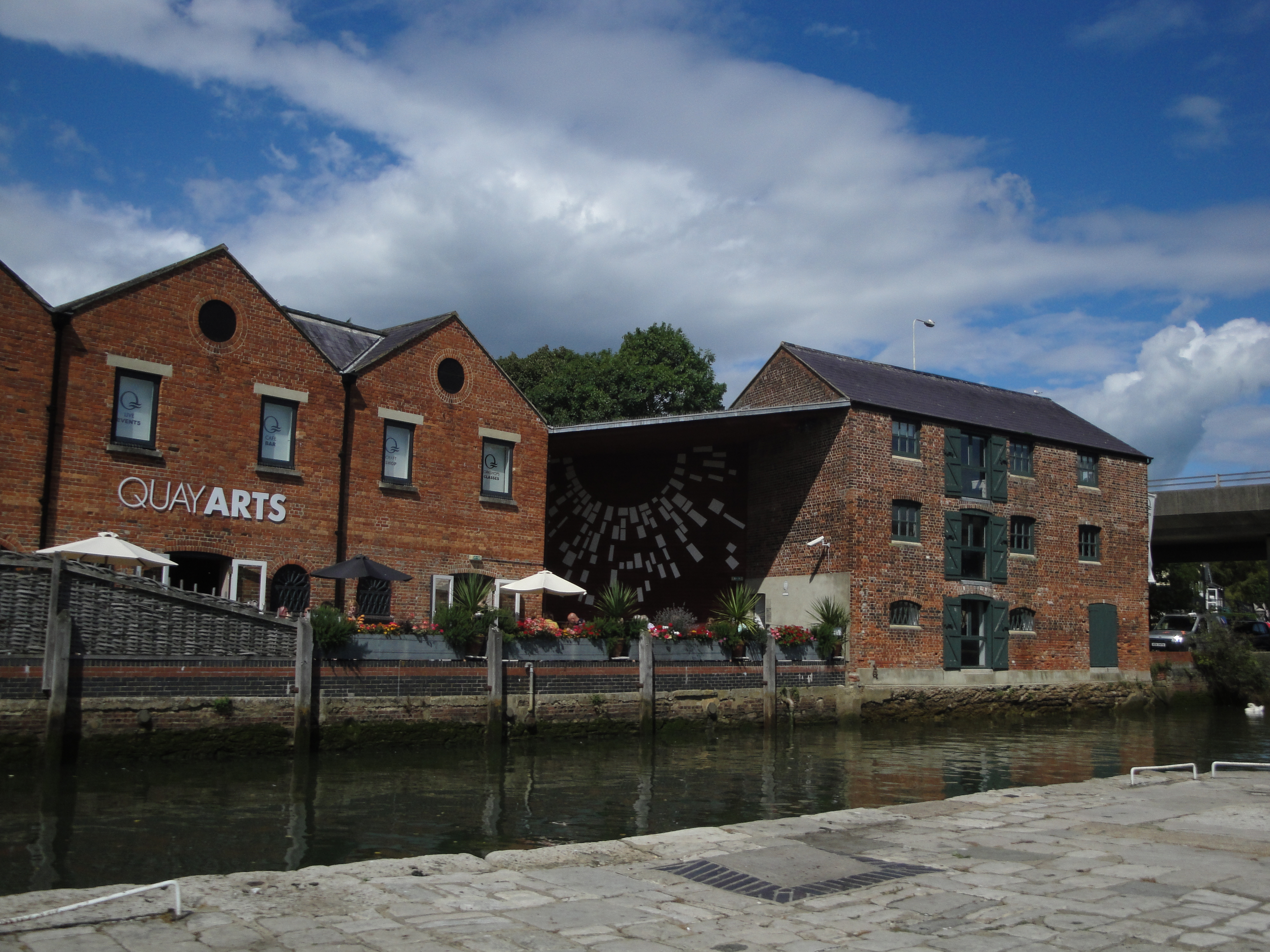 The Quay Arts Centre, Newport, Isle of Wight, seen in the Summer sun in August 2011.